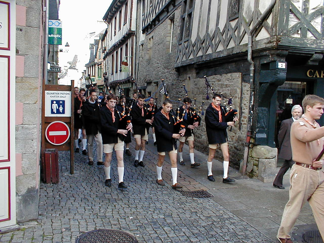 Bagad Saint Patrick 50°anniversaire